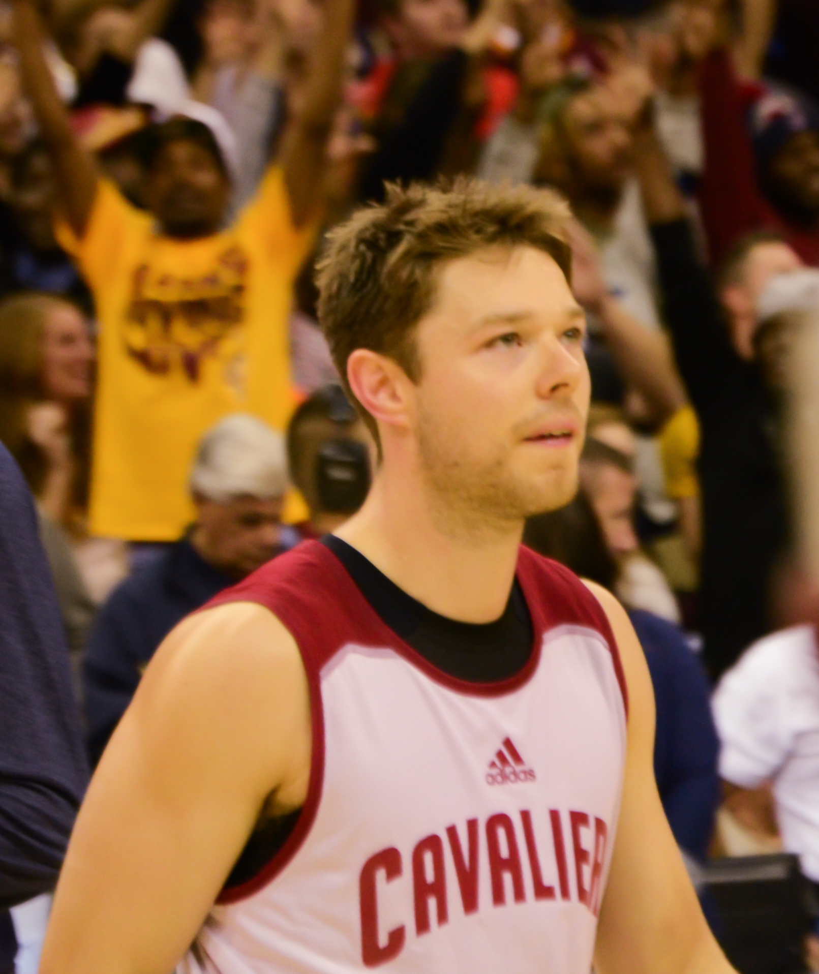 Matthew Dellavedova during the 2014 Wine and Gold Scrimmage